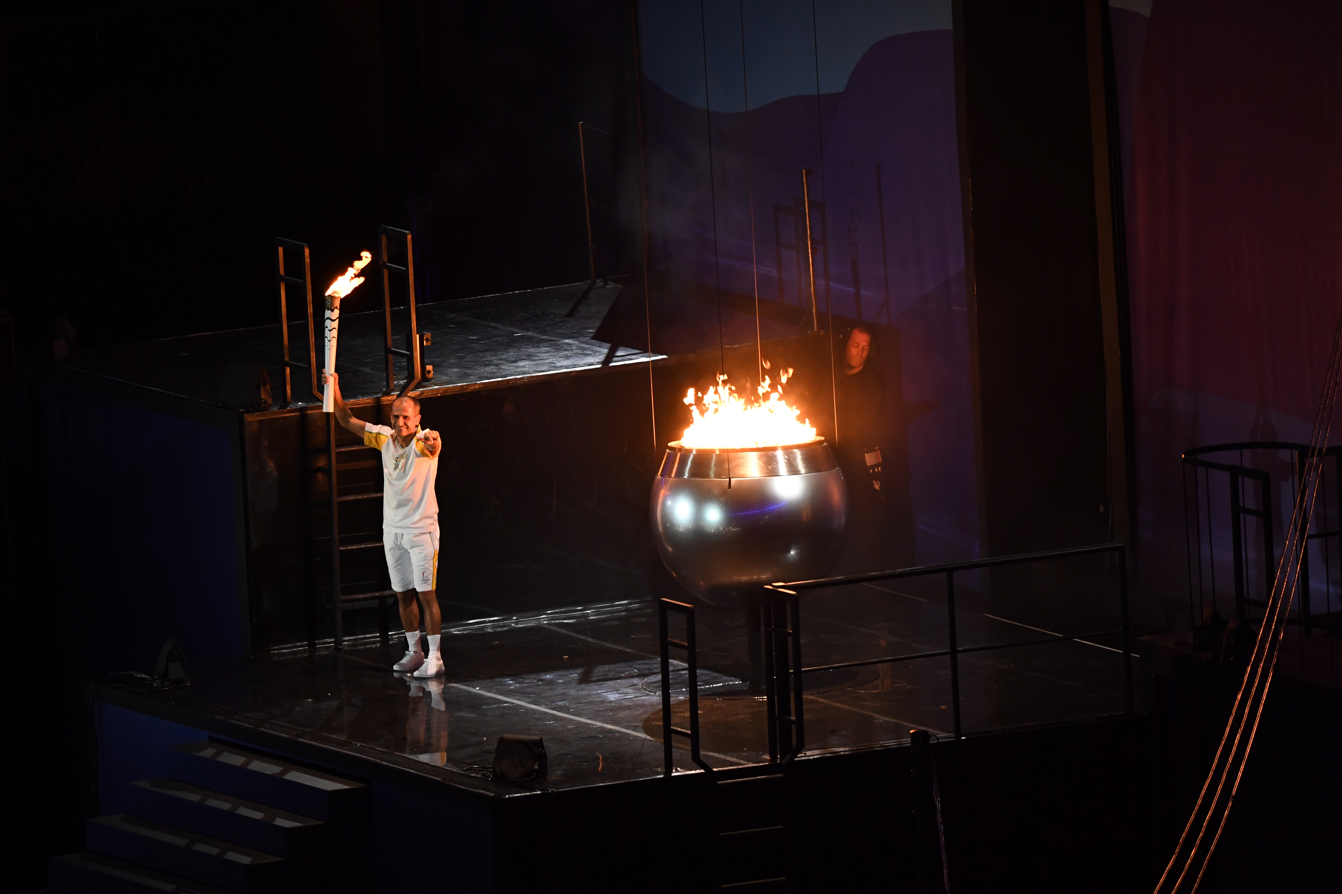 Vanderlei Cordeiro de Lima lights the Olympic cauldron during the Opening Ceremony of the 2016 Rio Olympic Games at Maracana Stadium in Rio de Janeiro, Brazil. U.S. Army photo by Tim Hipps, IMCOM Public Affairs.